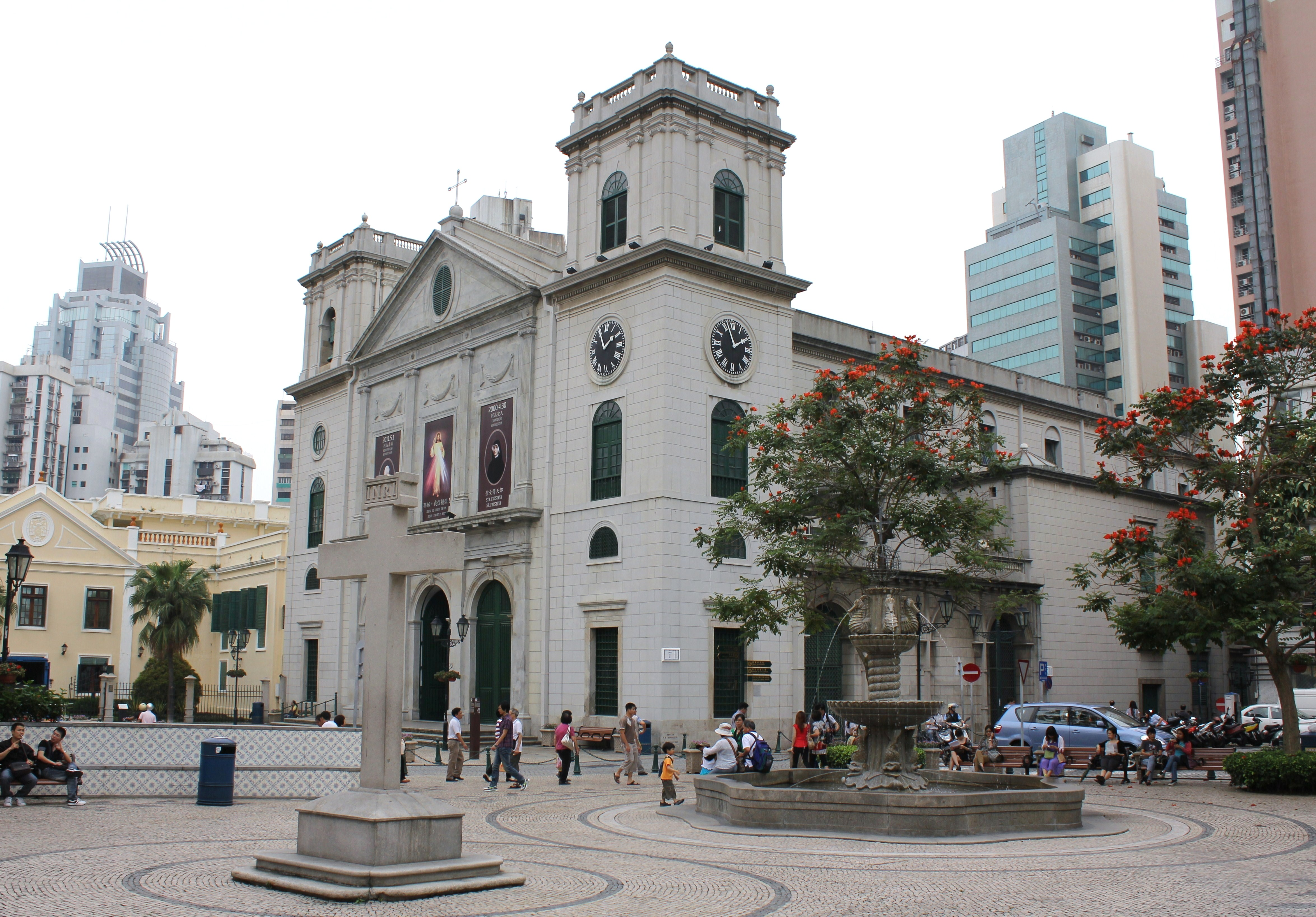 Igreja da Sé in Macao.